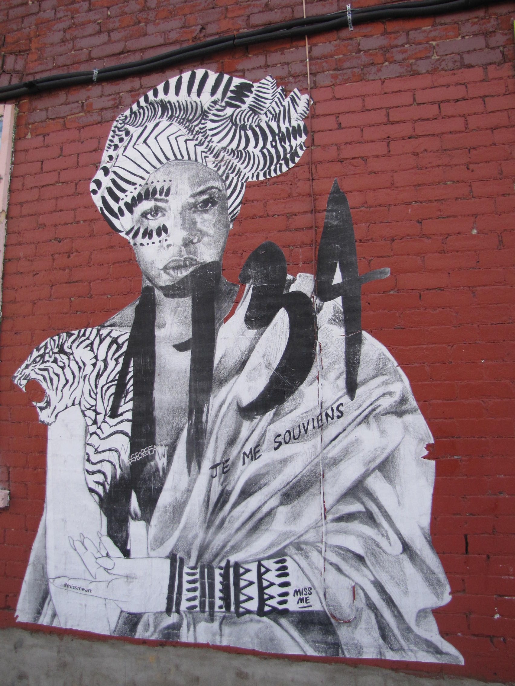 MissMe wheatpaste of Marie-Joseph Angélique in Montreal's Mile-end neighborhood